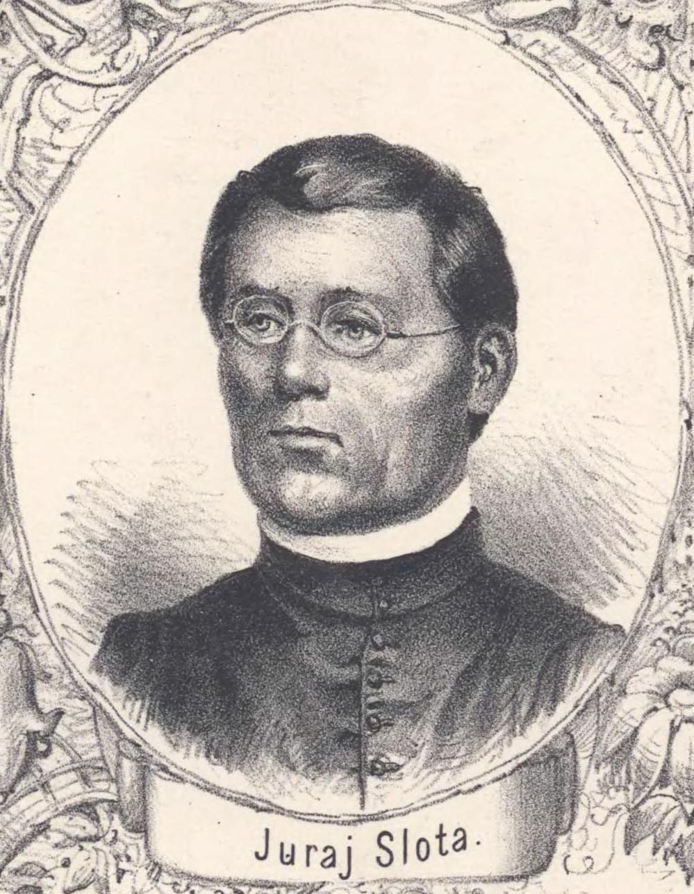 Portrait of Juraj Slota (1819 - 1882), Slovak priest, journalist and poet. Picture cropped from a gallery of famous Slovaks.